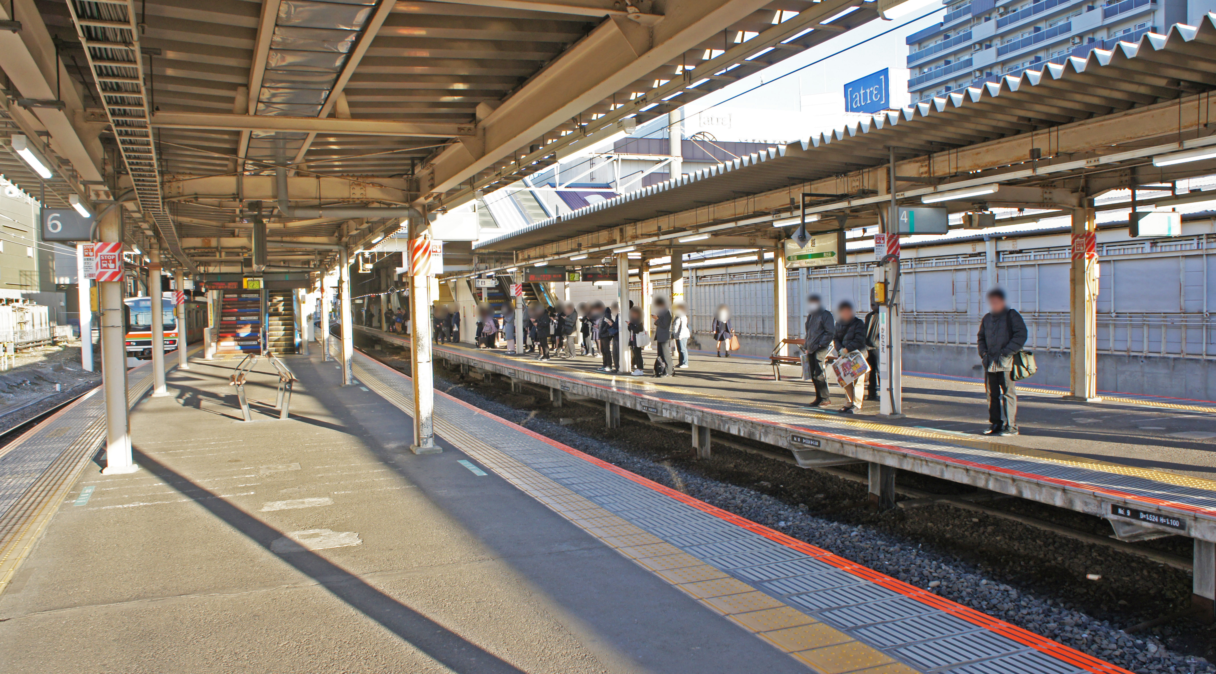 Platform of JR Kawagoe-Line Kawagoe Station